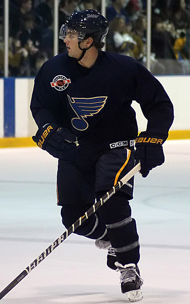 Kevin Shattenkirk - St.Louis Blues player during a 2011 practice